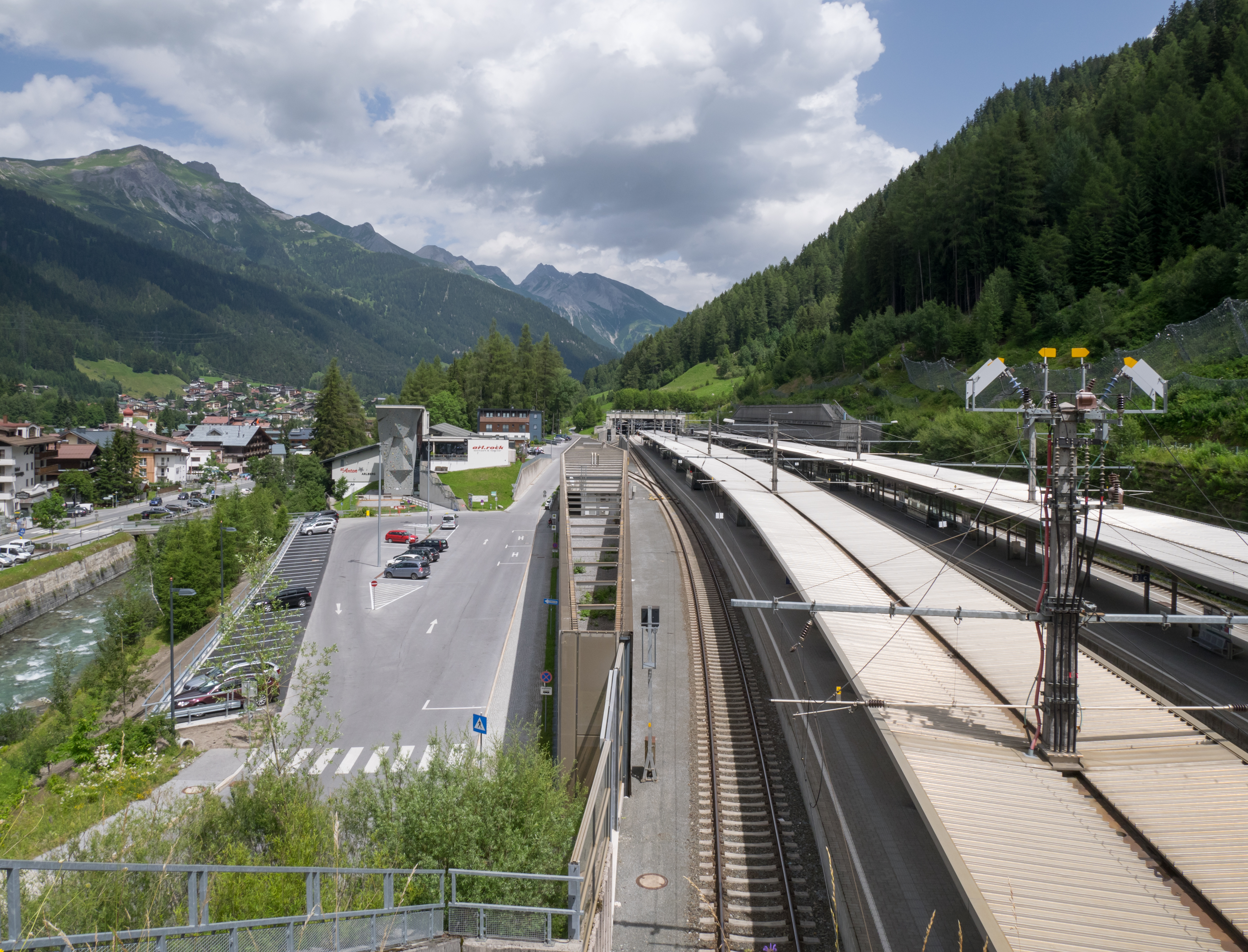 New railway station in St. Anton am Arlberg. Tyrol, Austria